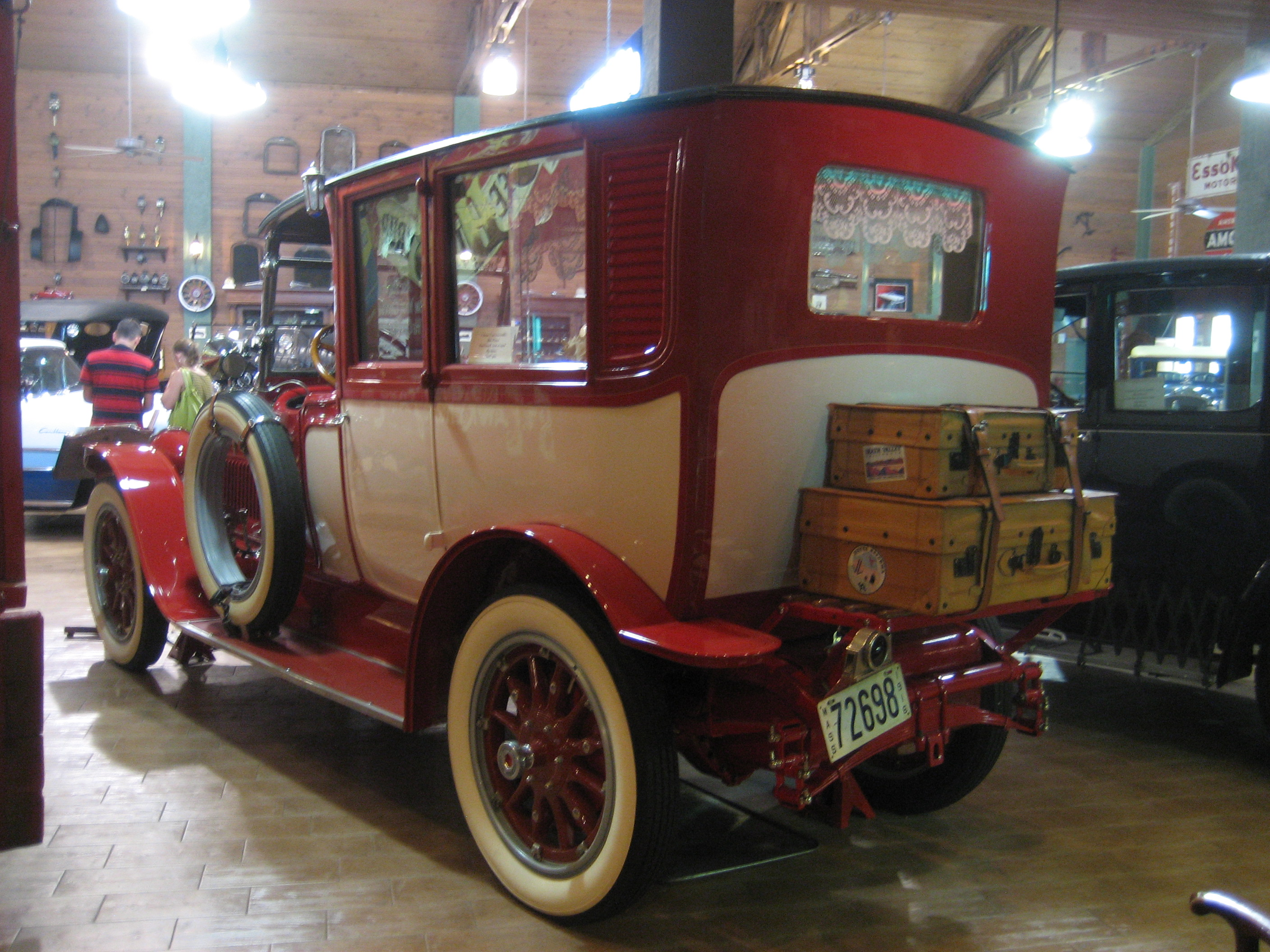 1916 Packard Twin-Six Model 1-35 Town Car Limousine with custom body by Kimball Company of Chicago. On display at Fort Lauderdale Antique Car Museum.